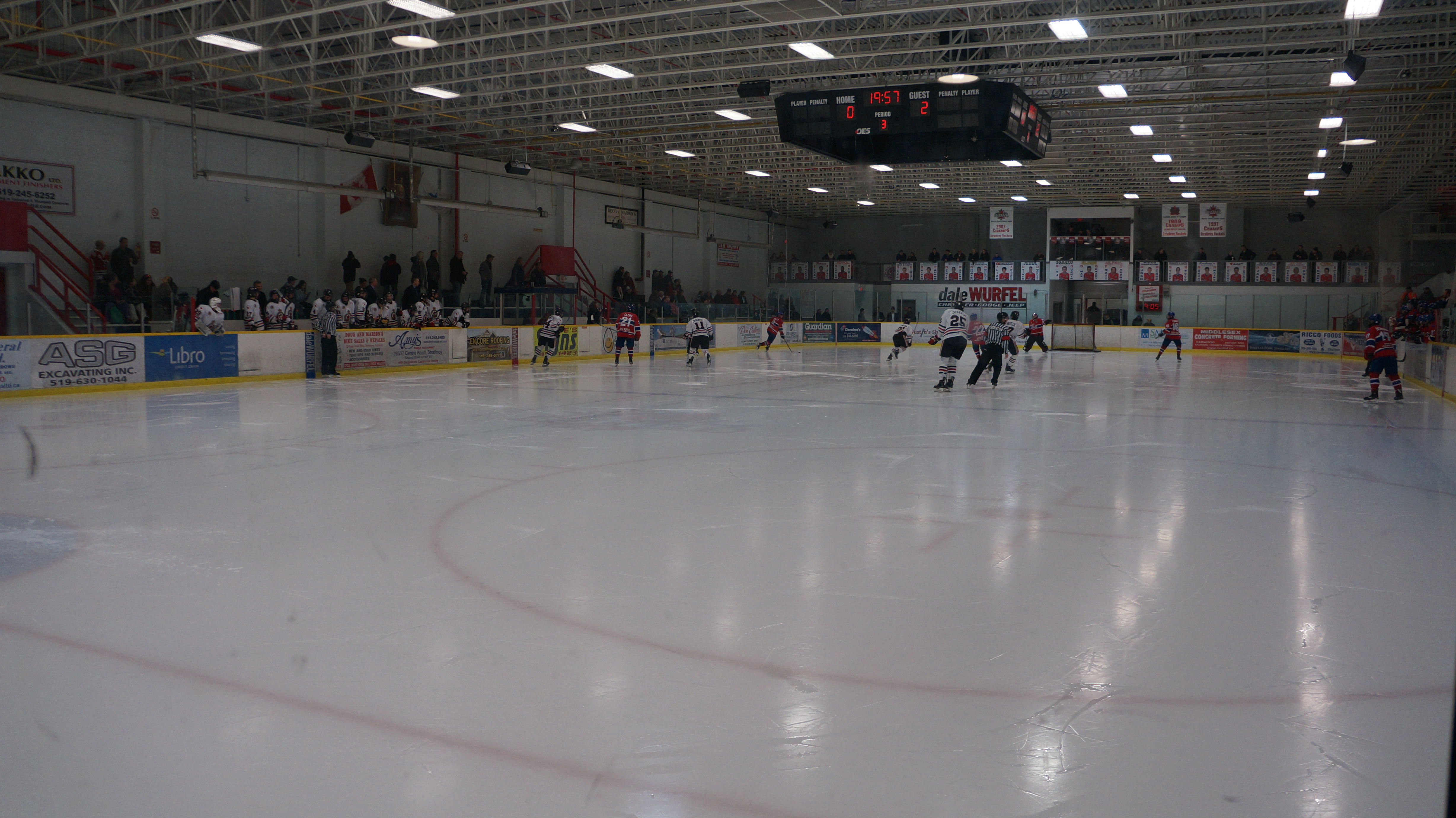 The Strathroy Rockets hosting the Sarnia Legionnaires at the West Middlesex Memorial Centre in Strathroy, Ontario on January 26, 2019.